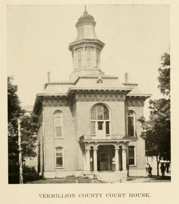 Photograph of a courthouse in Newport, Vermillion County, Indiana. This building was constructed in 1868 and was largely destroyed by a fire caused by a lightning strike on May 27, 1923.